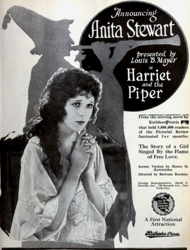 Advertisement for the American drama film Harriet and the Piper (1920) with Anita Stewart, on page 53 of the September 4, 1920 Exhibitors Herald.